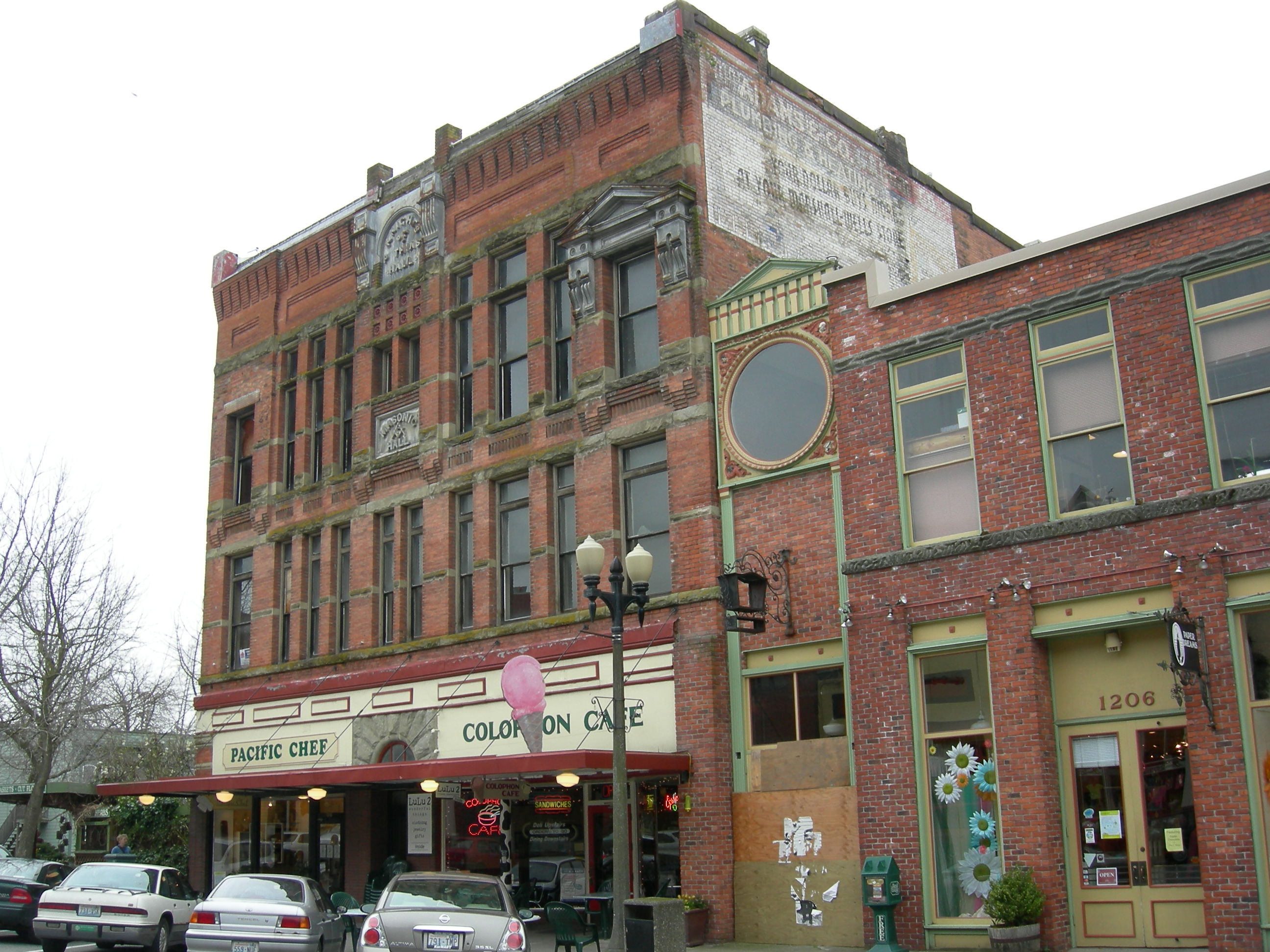 Historic Fairhaven district, Bellingham, Washington. Knights of Pythias building, now housing the Colophon Cafe and other associated businesses.